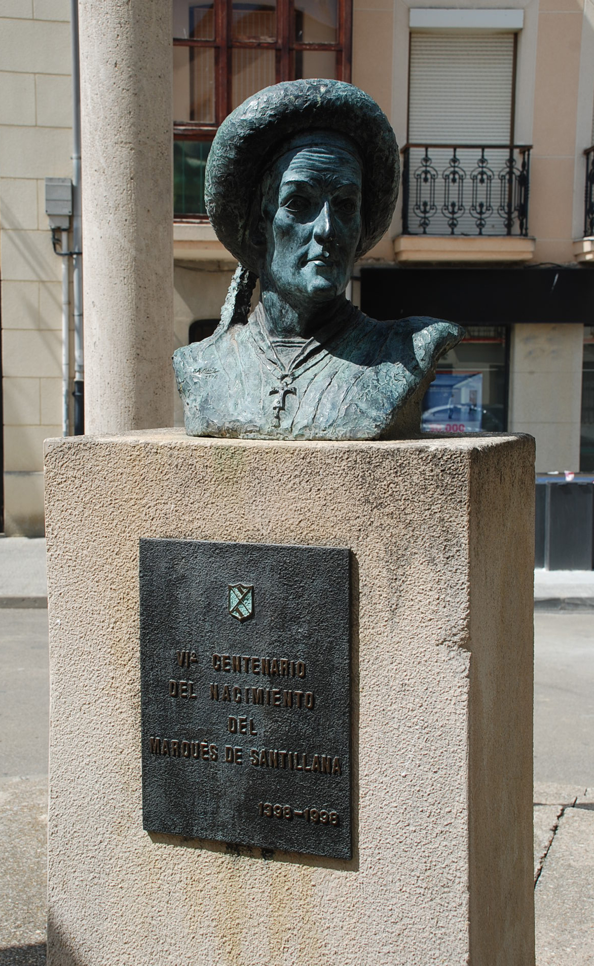 Bust of Íñigo López de Mendoza, Marquis of Santillana, in Carrión de Los Condes (Palencia, Castile and León), his born place in 1398.